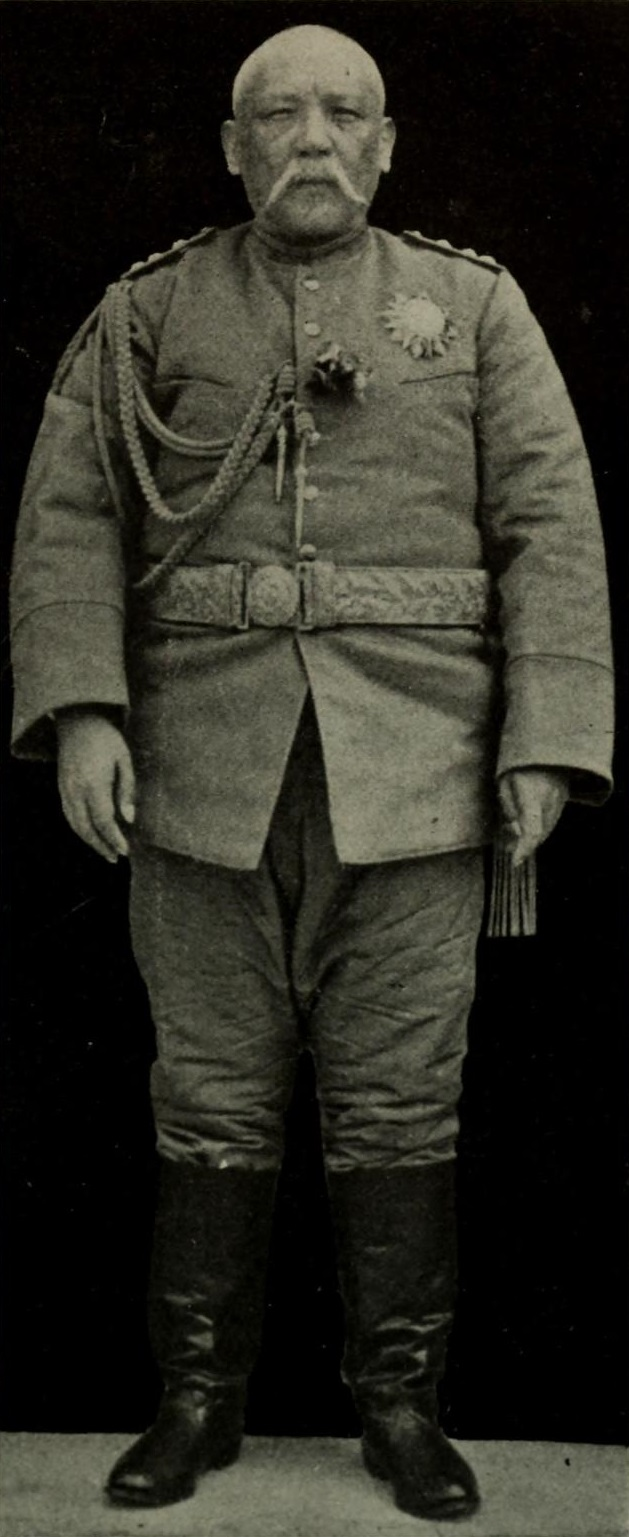 "The strong man of china."